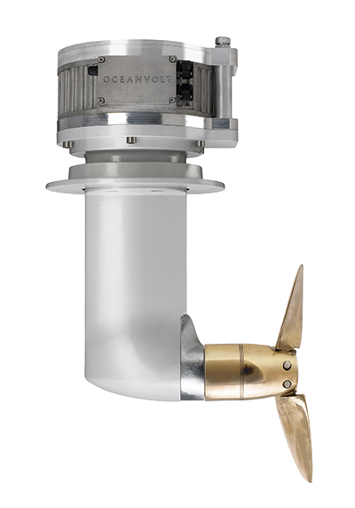 Synchronous permanent magnet motor Saildrive with 1,93:1 reduction Lightweight: Weighs only 39kg (motor & saildrive). The only complete electric inboard propulsion system with EMC-certification Closed circulation liquid cooling, provides both cooling and lubrication